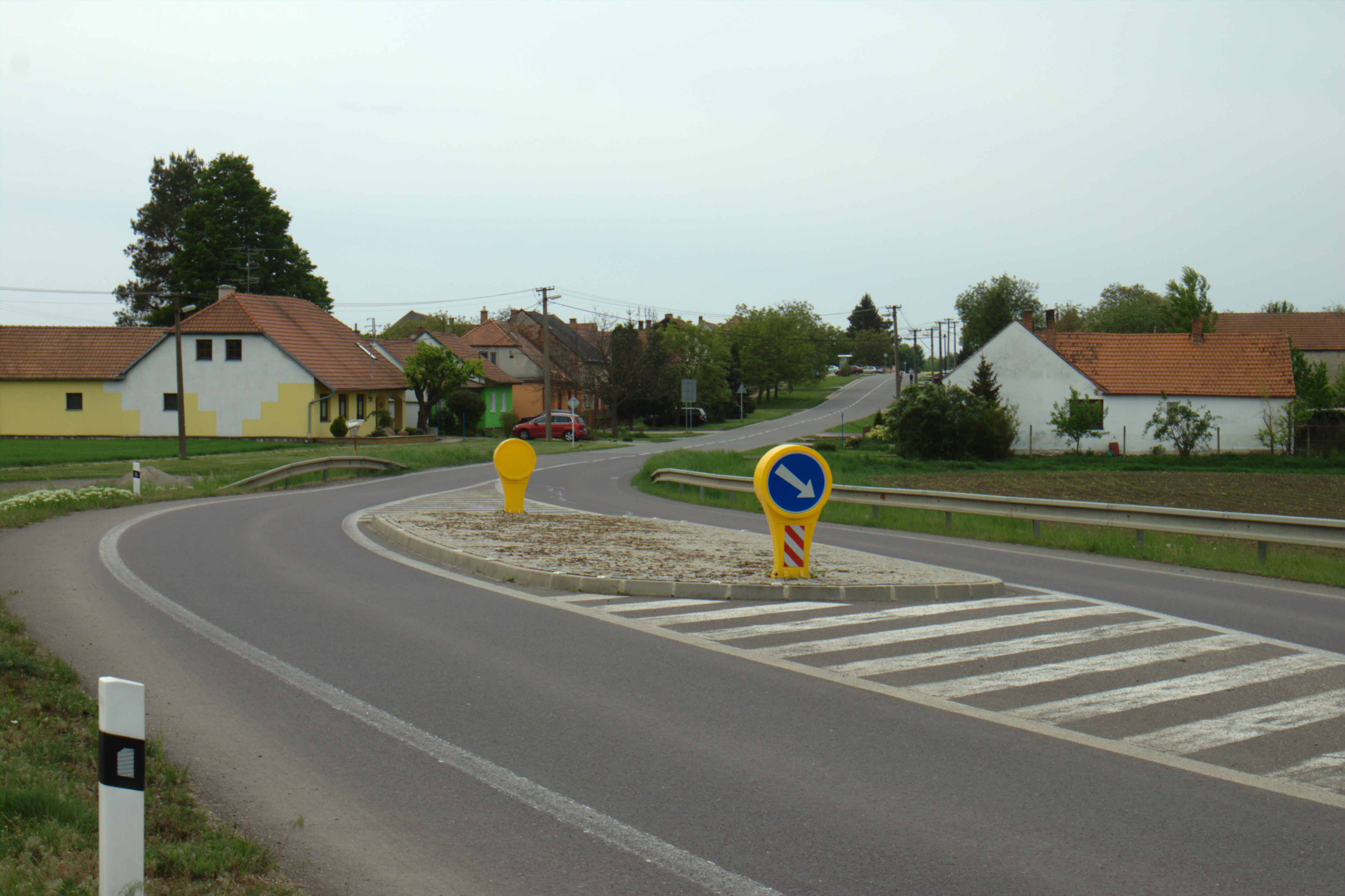 View of the Trnové Pole village from north, South Moravian Region, CZ